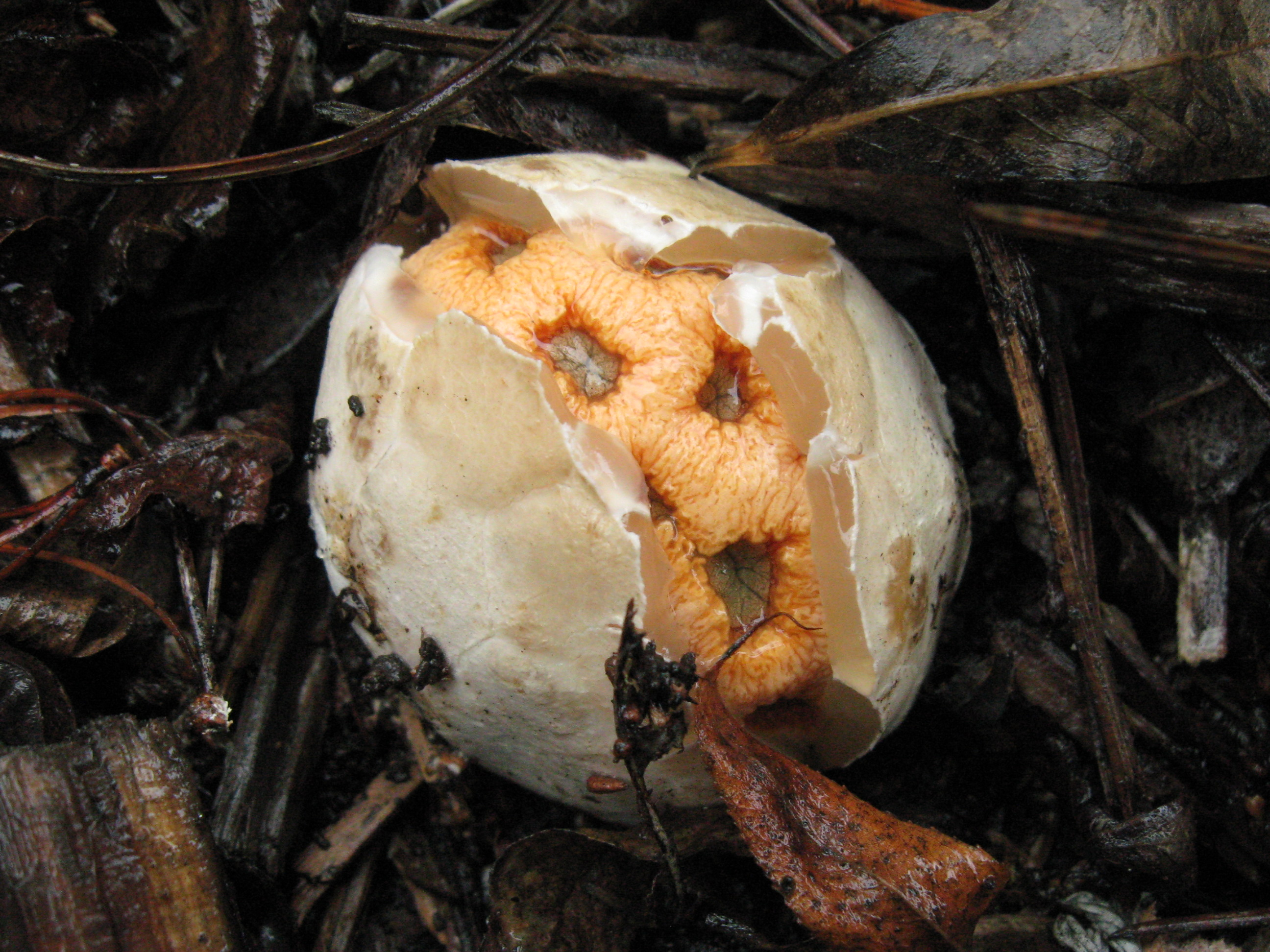 Clathrus ruber (P. Micheli ex Pers.) Location: Corte Madera, California, USA